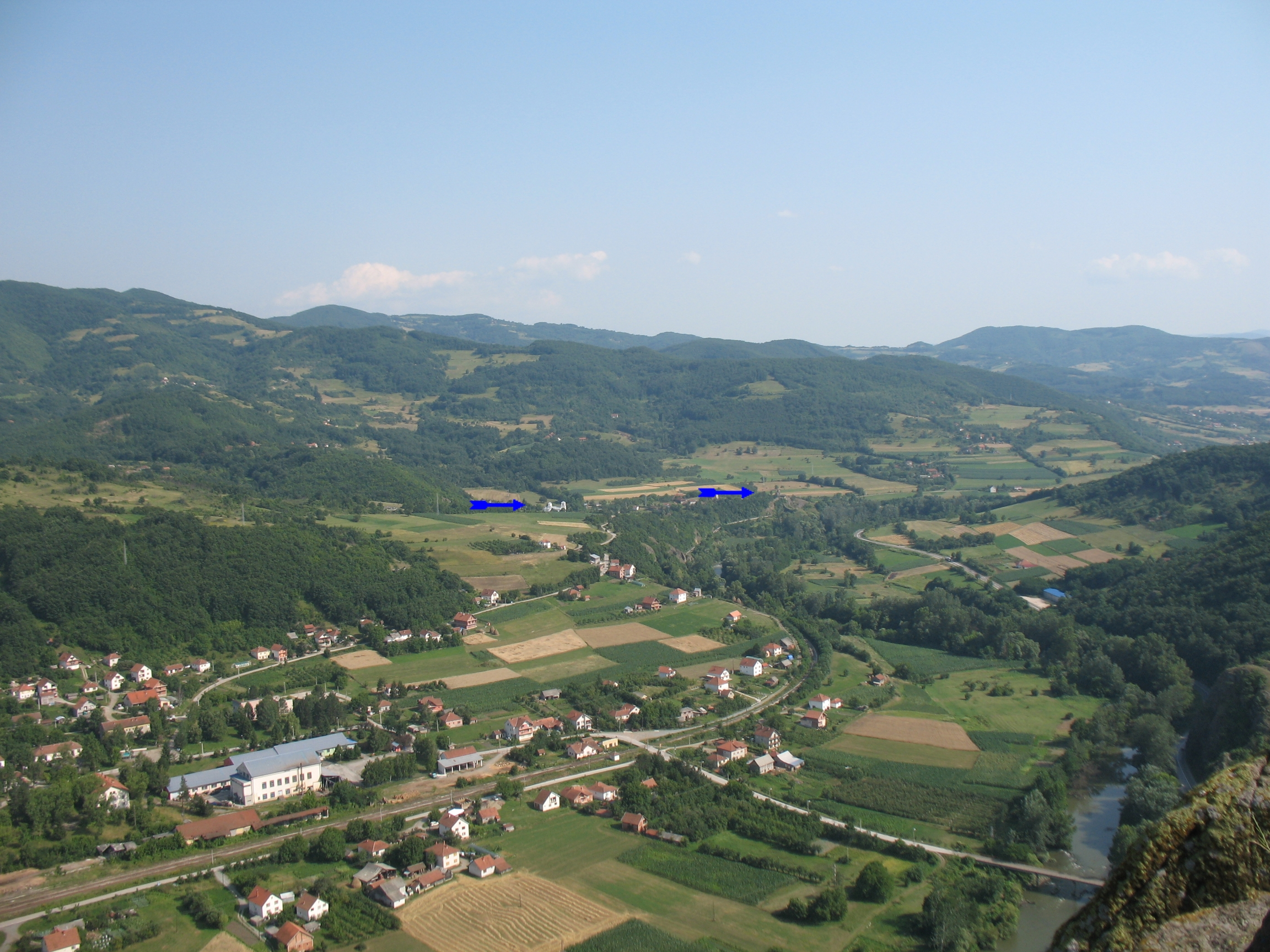 View from remains of citadel of Brvenik fortress on Stara (Old) and Nova (New) Pavlica churches,Raška municipality,Serbia.